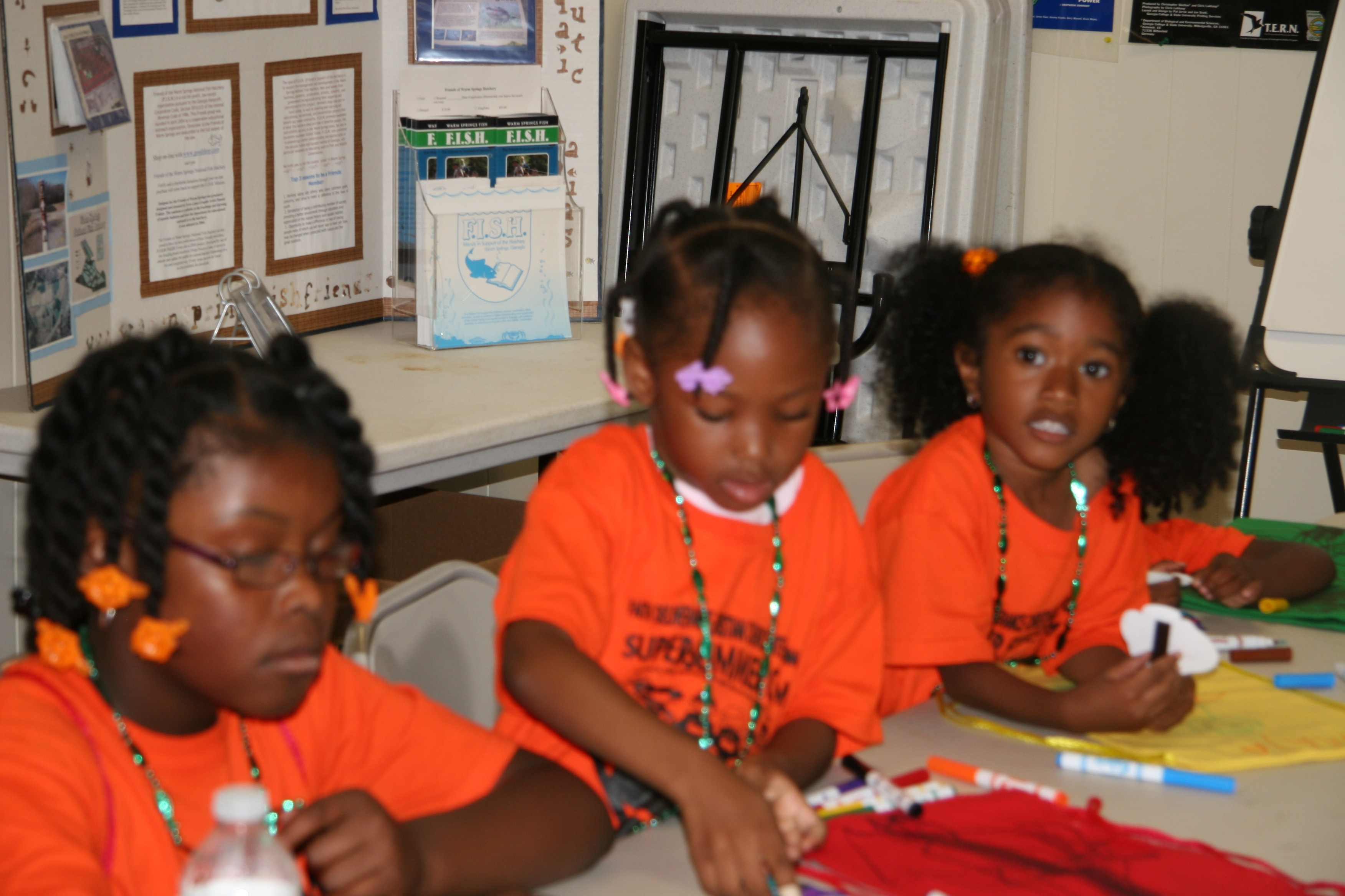 June 27, 2011 Warm Springs Credit: USFWS